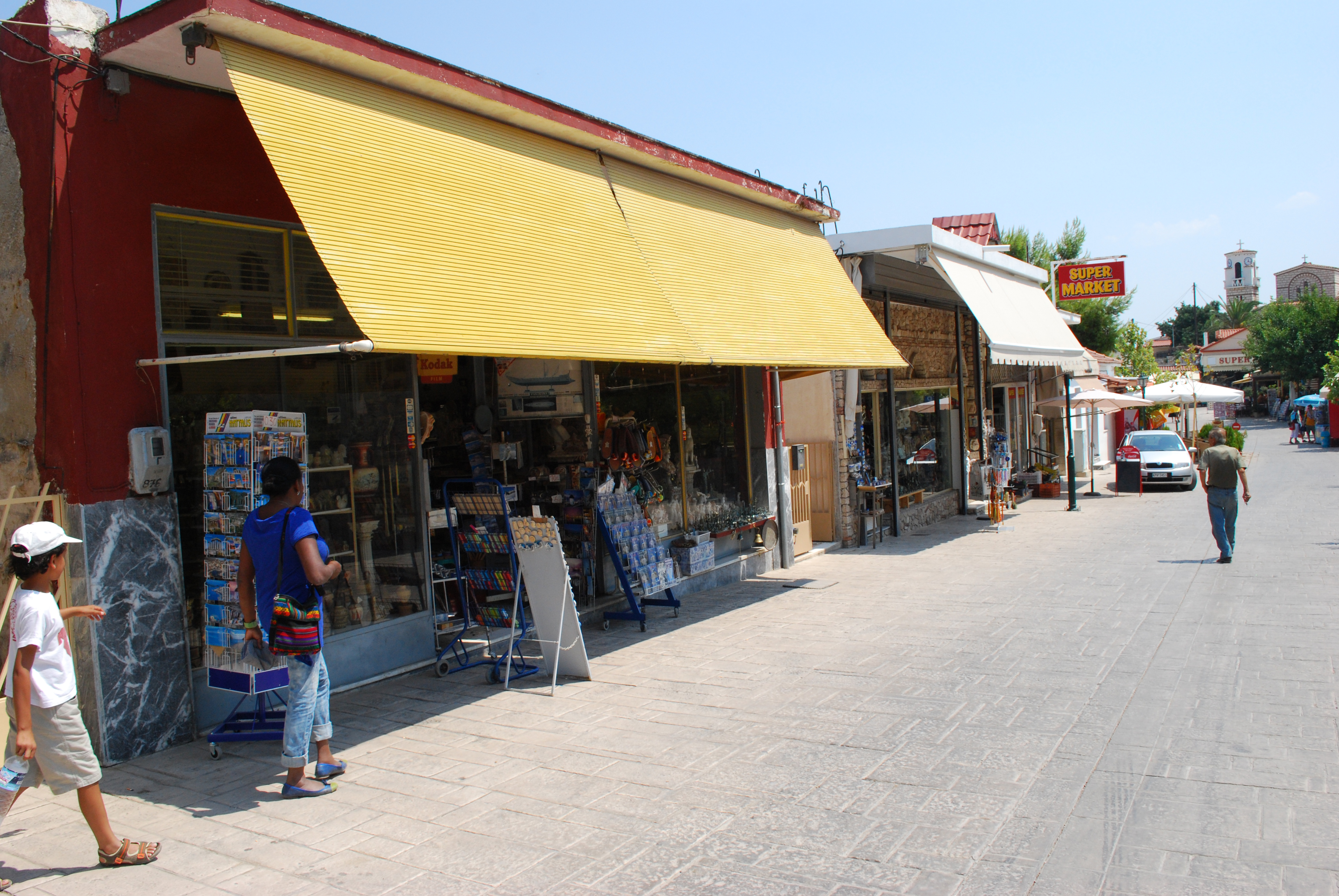 Ancient Corinth, near the archaeological site.